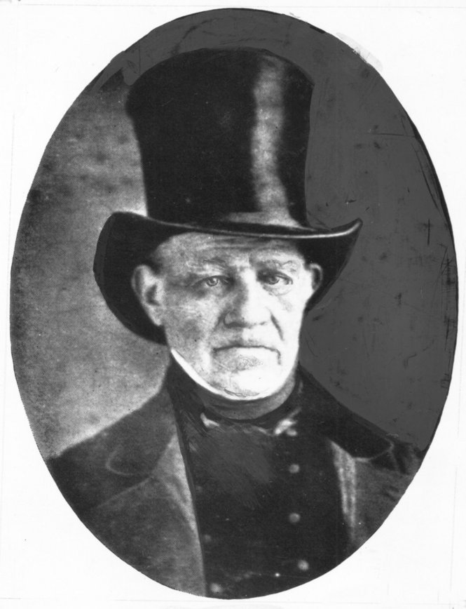 Judah Touro, photoportrait wearing top hat.